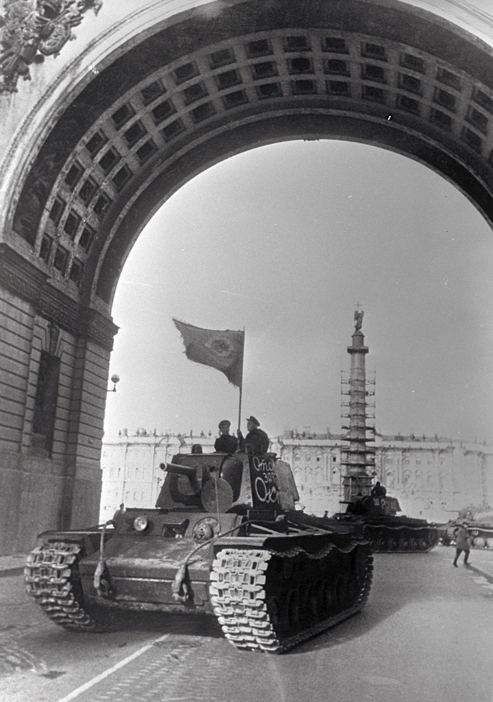 “Tanks going to the front”. Tanks going to the front from Palace Square in besieged Leningrad.